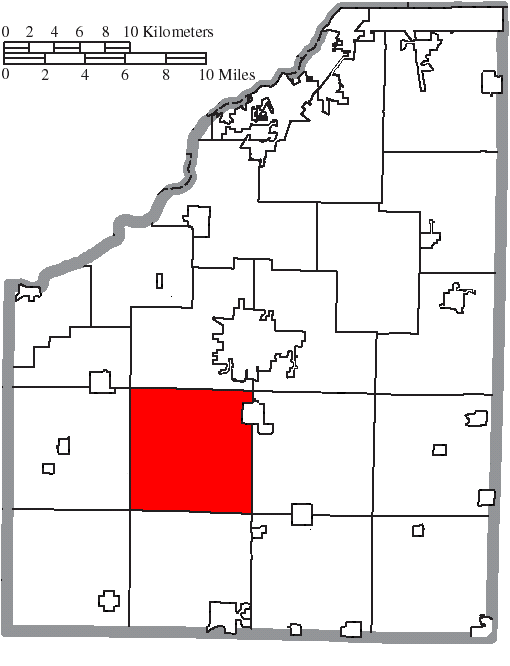 Map of the municipal and township boundaries of Wood County, Ohio, United States, as of the 2000 census, with the location of Liberty Township highlighted. Township borders are shown only in unincorporated areas in order to differentiate incorporated and unincorporated areas more clearly.